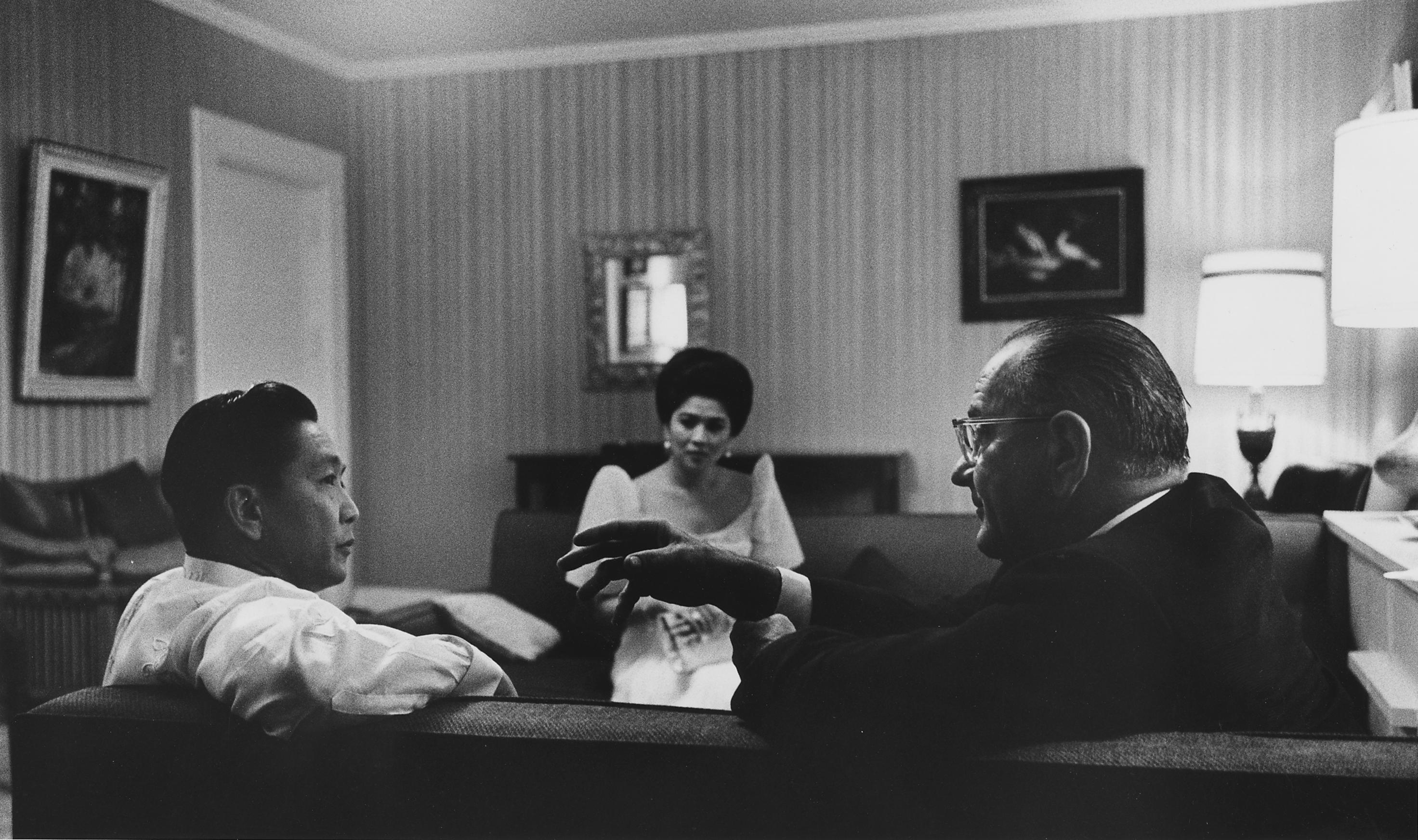 President Ferdinand Marcos and his wife Imelda meet with President Lyndon B. Johnson in Manila.